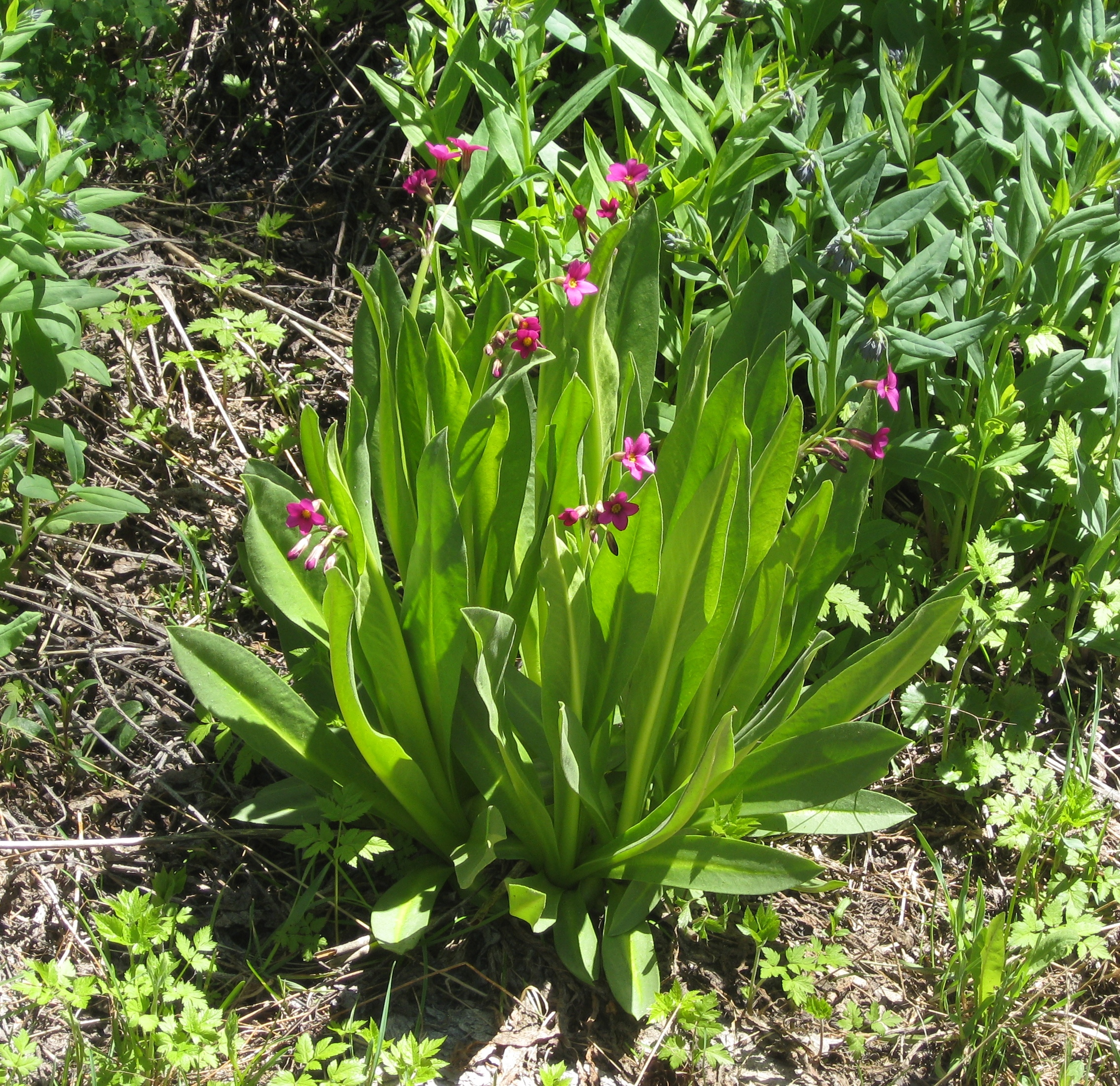 Primula parryi — Parry's primrose. In Cedar Breaks National Monument, Utah.